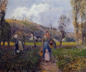 Work by Camille Pissarro